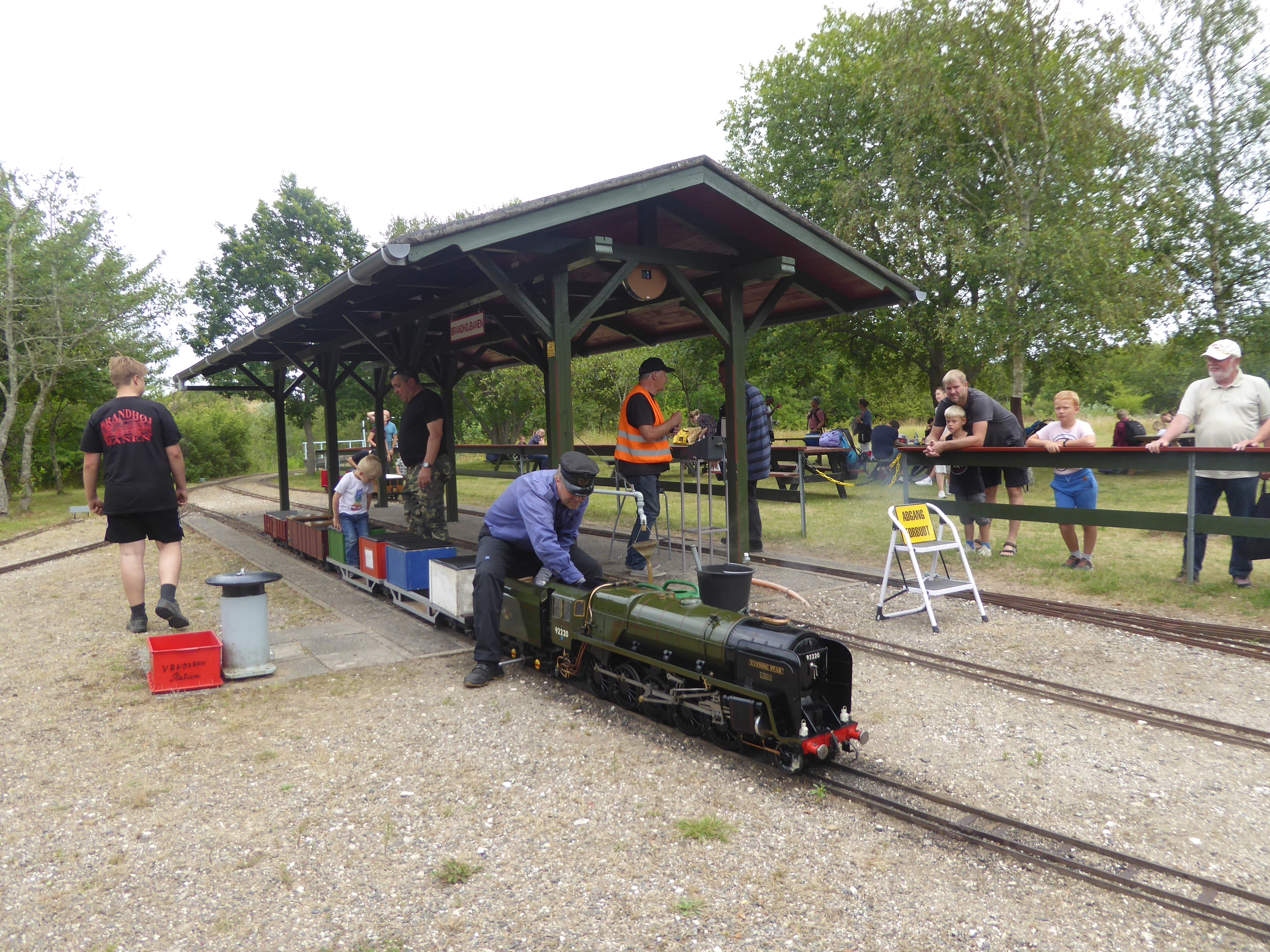 The miniature railway Brandhøjbanen in Hedeland west of Copenhagen.